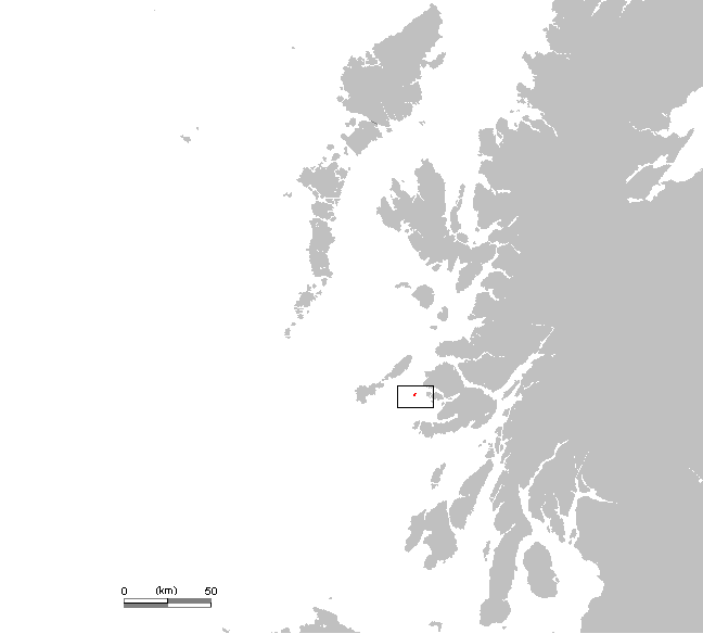 UK Treshnish.PNG (Scotland, Hebrides)